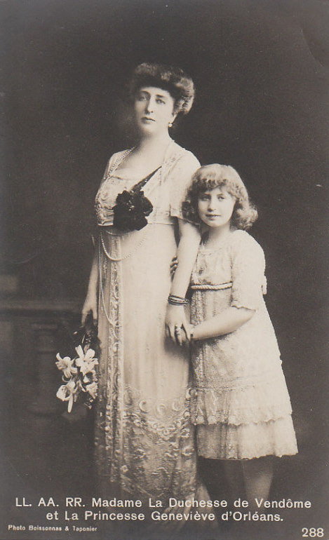 Princess Henriette of Belgium, Duchess of Vendôme with her daughter Geneviève d’Orléans